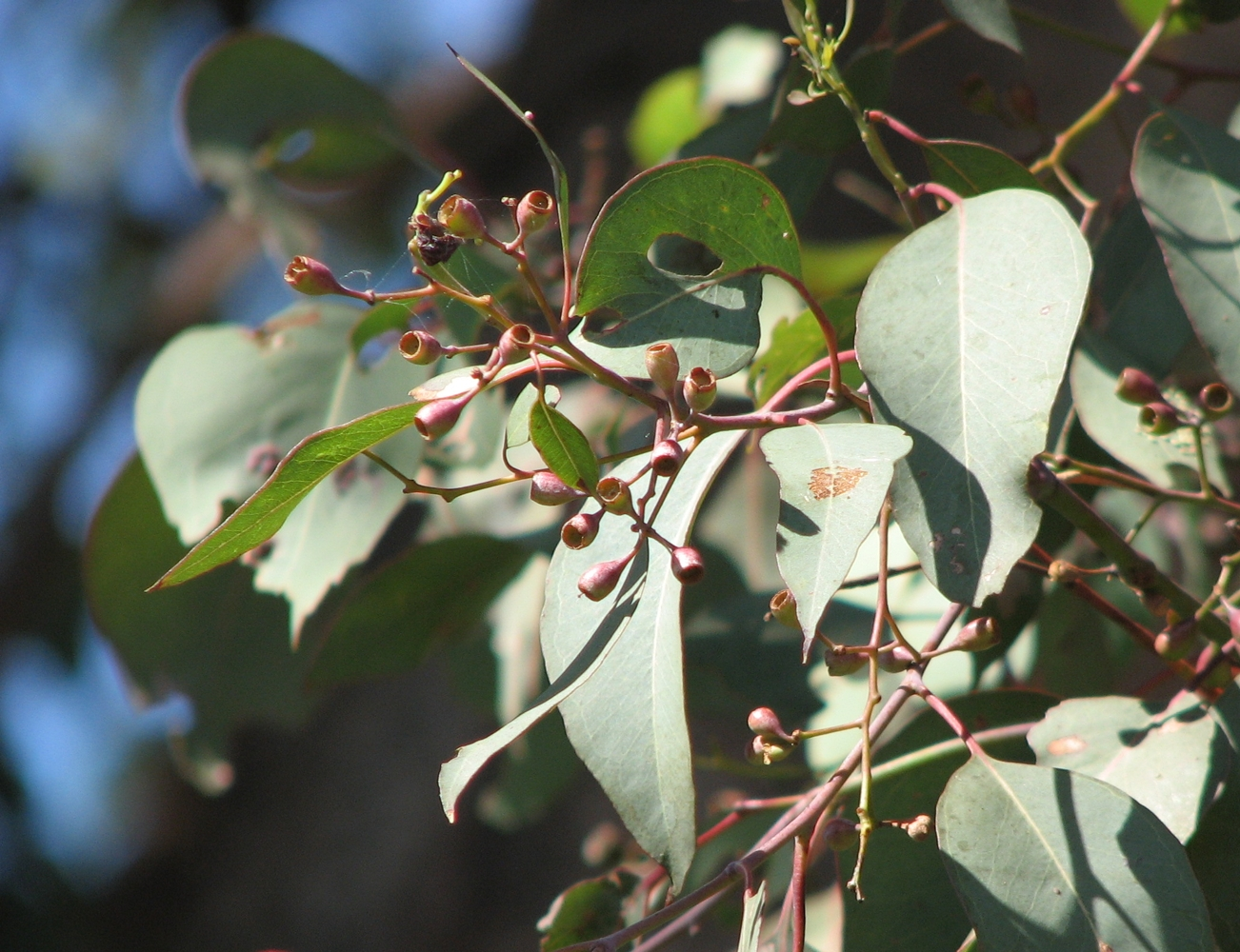 Foliage and immature fruits of Eucalyptus polyanthemos subsp. vestita, Christmas Hills, Victoria, Australia